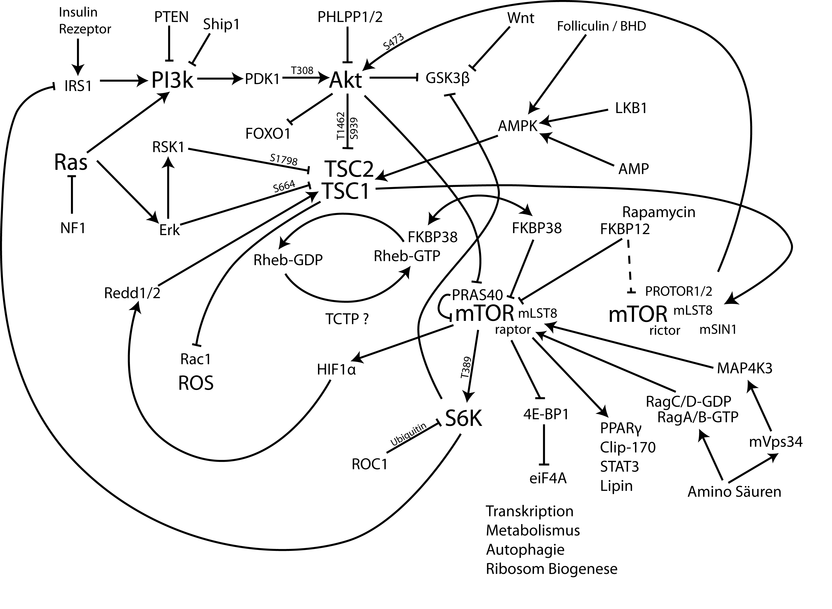 Mammalian Target of Rapamycin, detailed German pathway overview. Source: I created this image entirely by myself. Illustrator file available upon request. For updates and references, please .